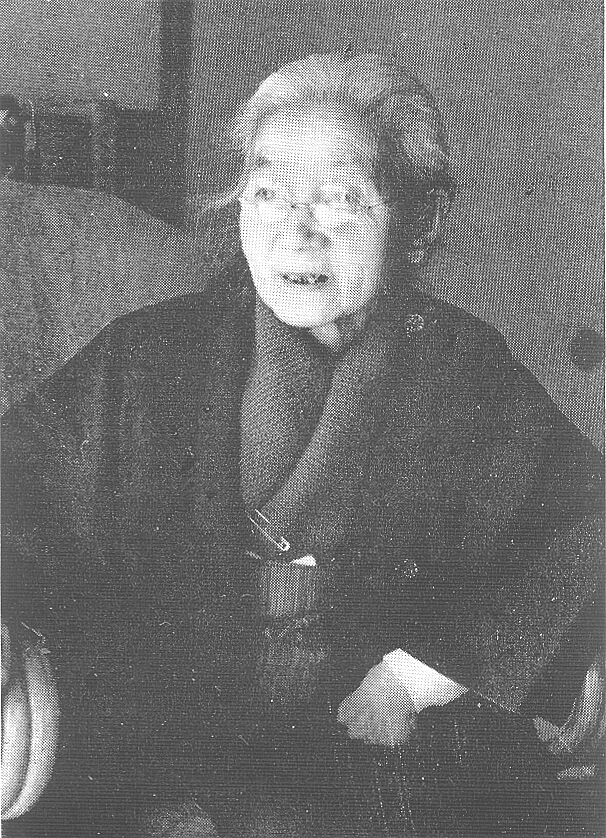 Kokkō Sōma (1876-1955) was a Japanese Businesspeople.